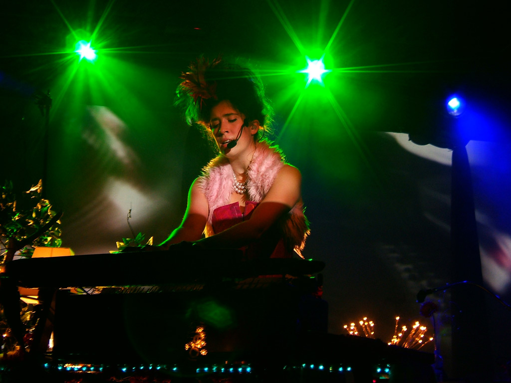 Imogen Heap at Birmingham Academy - 12th Ocober 2006